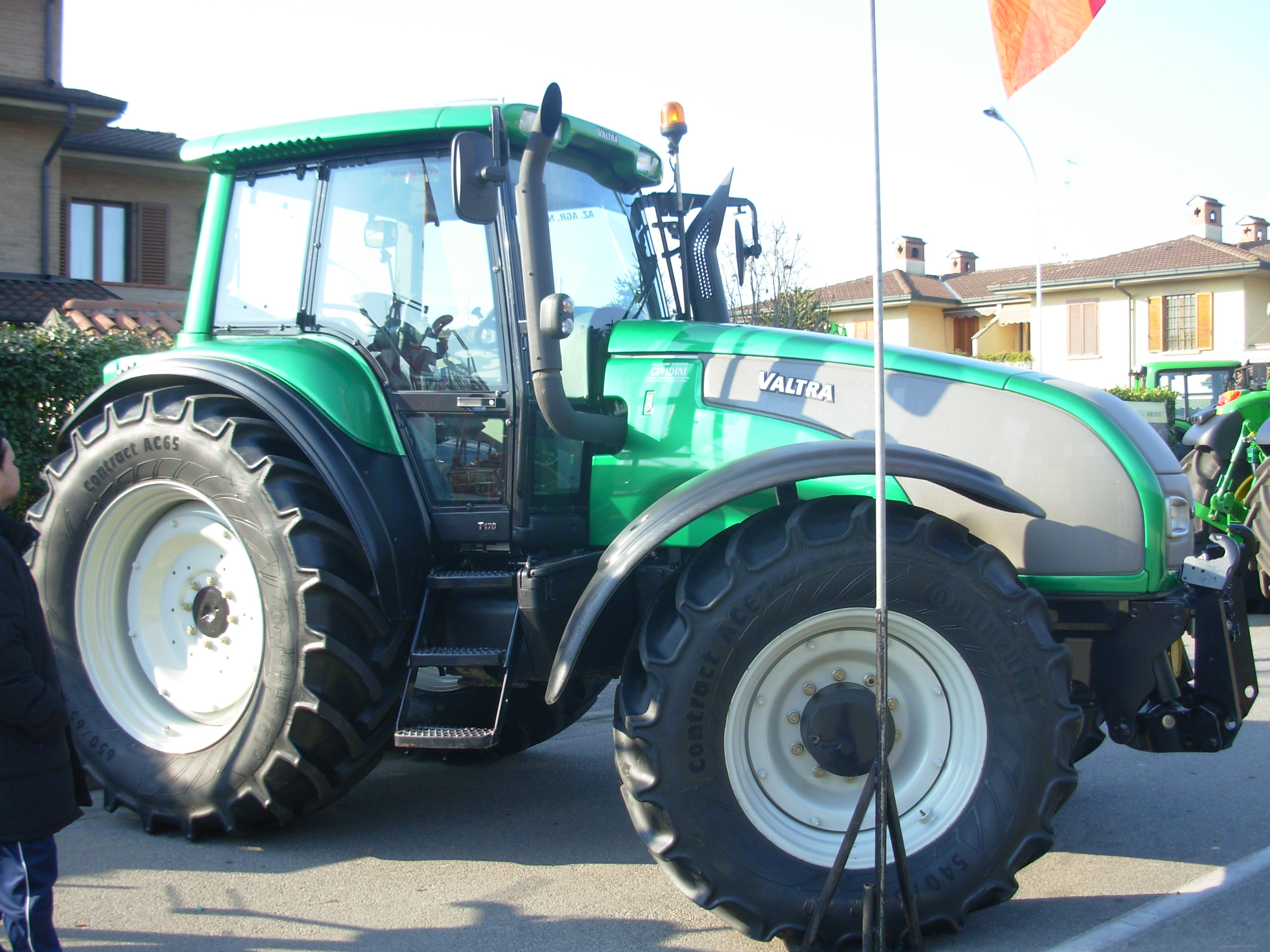 Valtra tractor, model T170 with 175 bhp and front linkage.